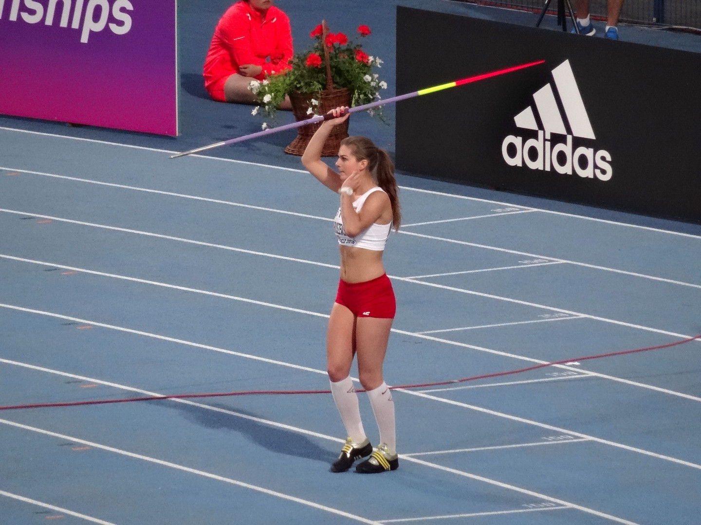 2016 IAAF World U20 Championships in Bydgoszcz, javelin throw women final, Klaudia Maruszewska.